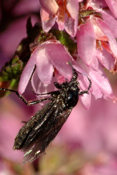 Picture taken in Commanster, Belgian High Ardennes . Species: female Dilophus febrilis